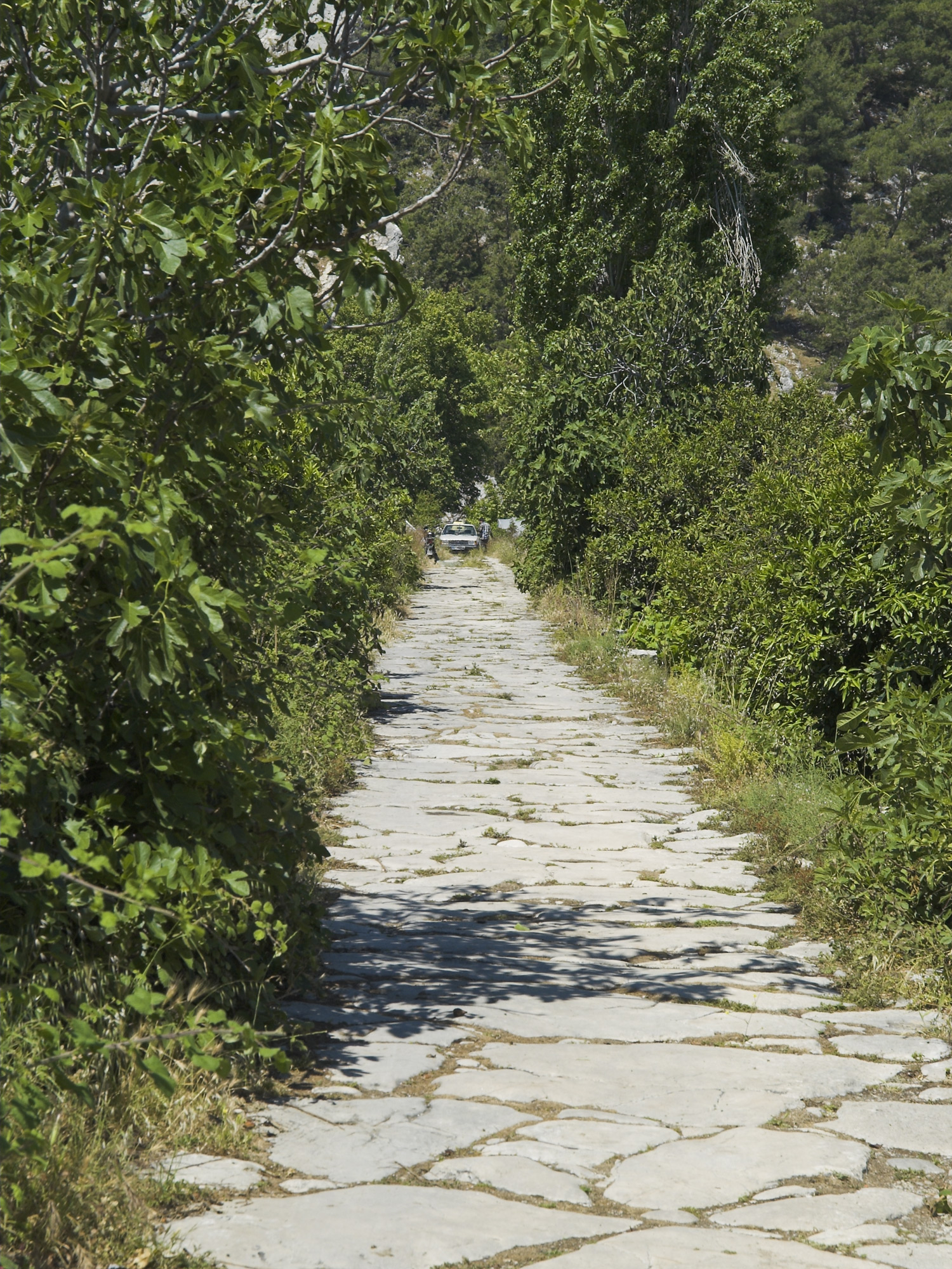 The Roman Bridge near Limyra, Lycia, Turkey. View over the bridge to the west. The late antique structure is one of the oldest segmental arch bridges in the world. The 360 m long bridge crosses on 28 arches the Alakır Çayı, 26 of which being segmental arches with an average span to rise ratio of 5.3 to 1. Today, the structure is buried up to the vaults by river sedimentation.